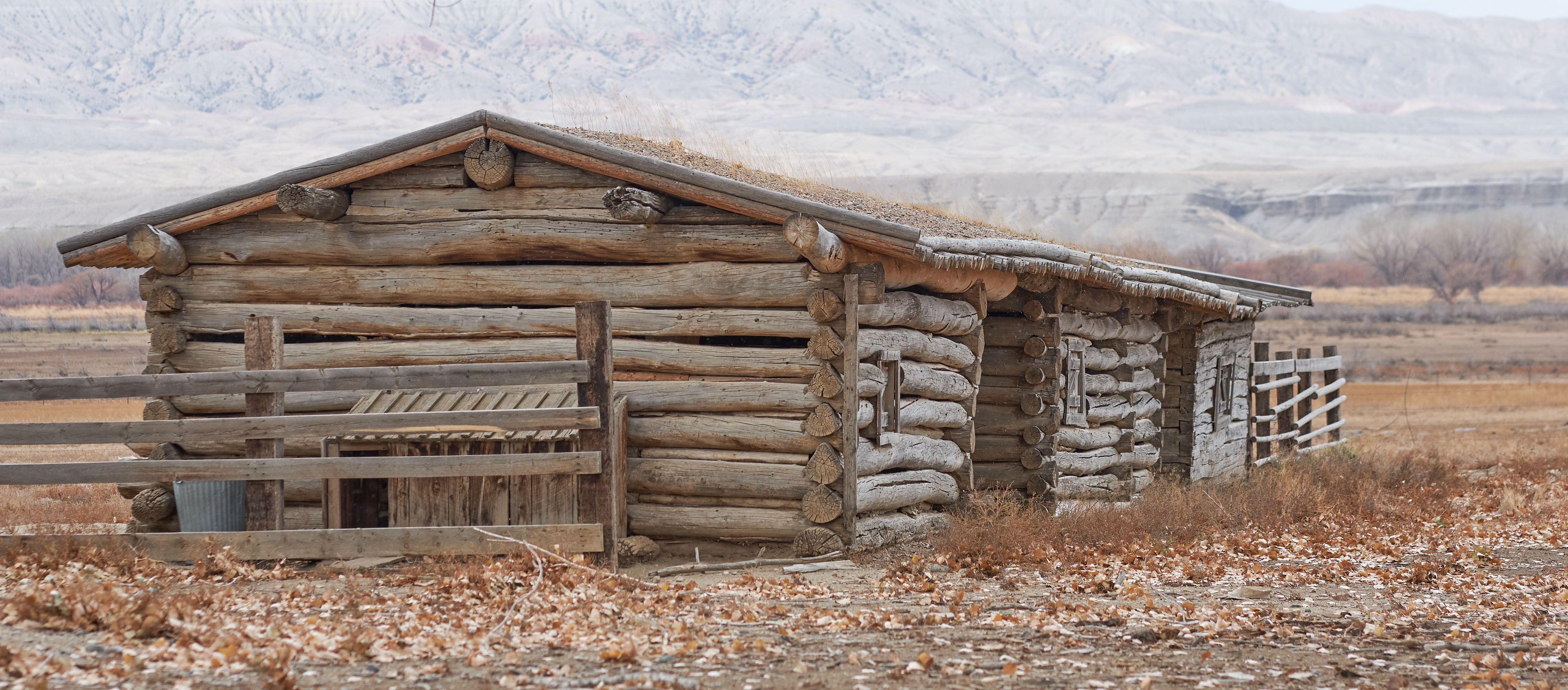 Mason-Lovell Bunkhouse, looking towards Lovell